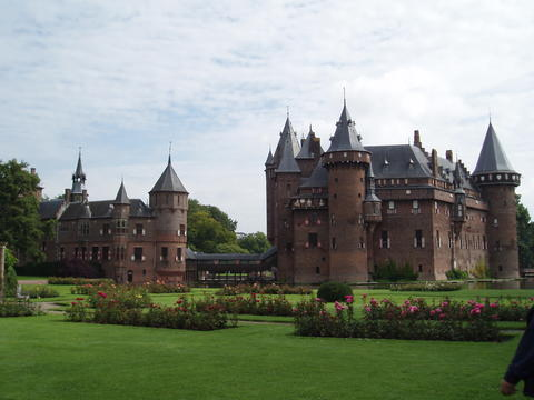 Picture of Kasteel de Haer near Utrecht in the Netherlands